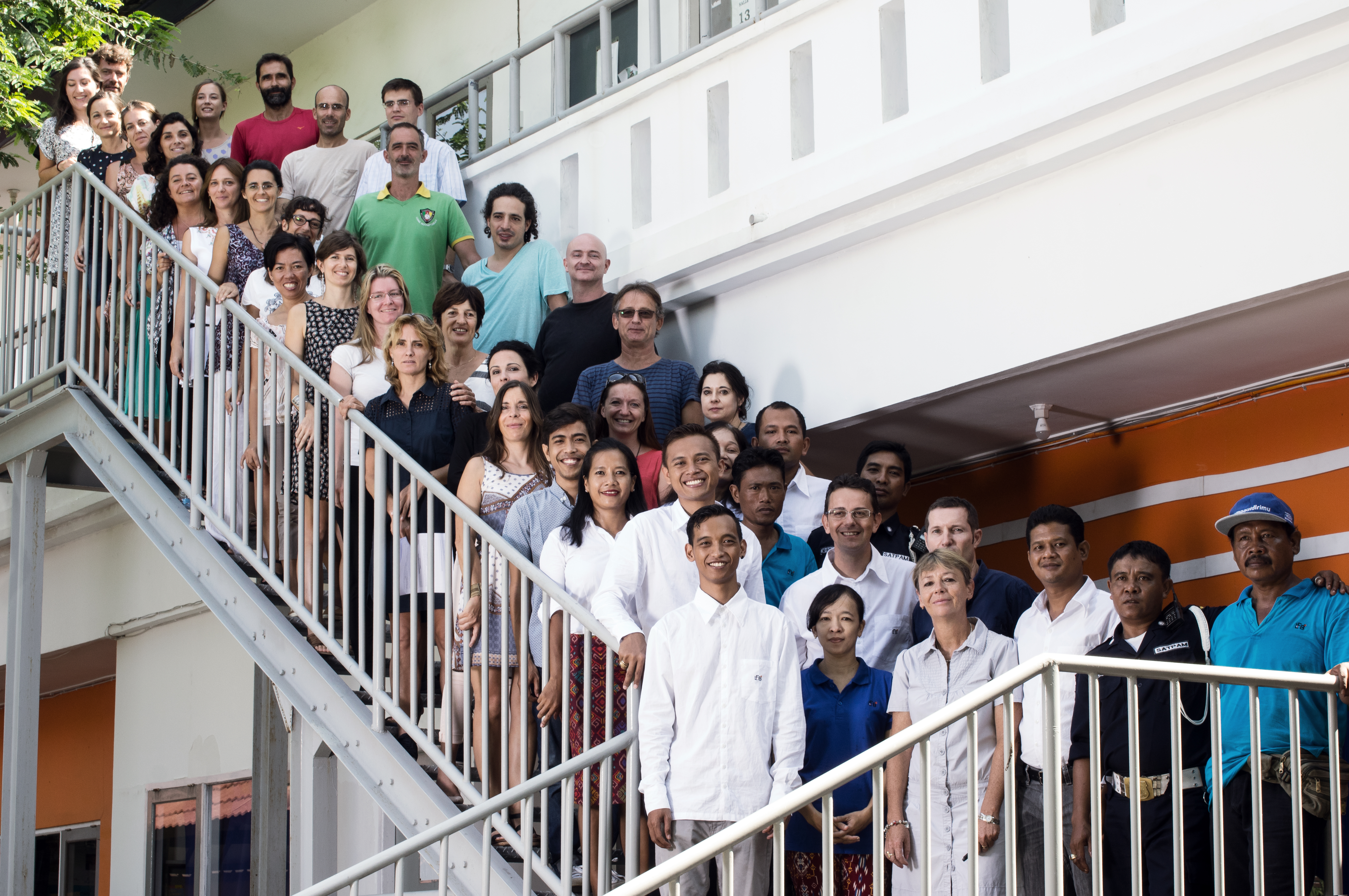 Staff members of the Lycée Français de Bali